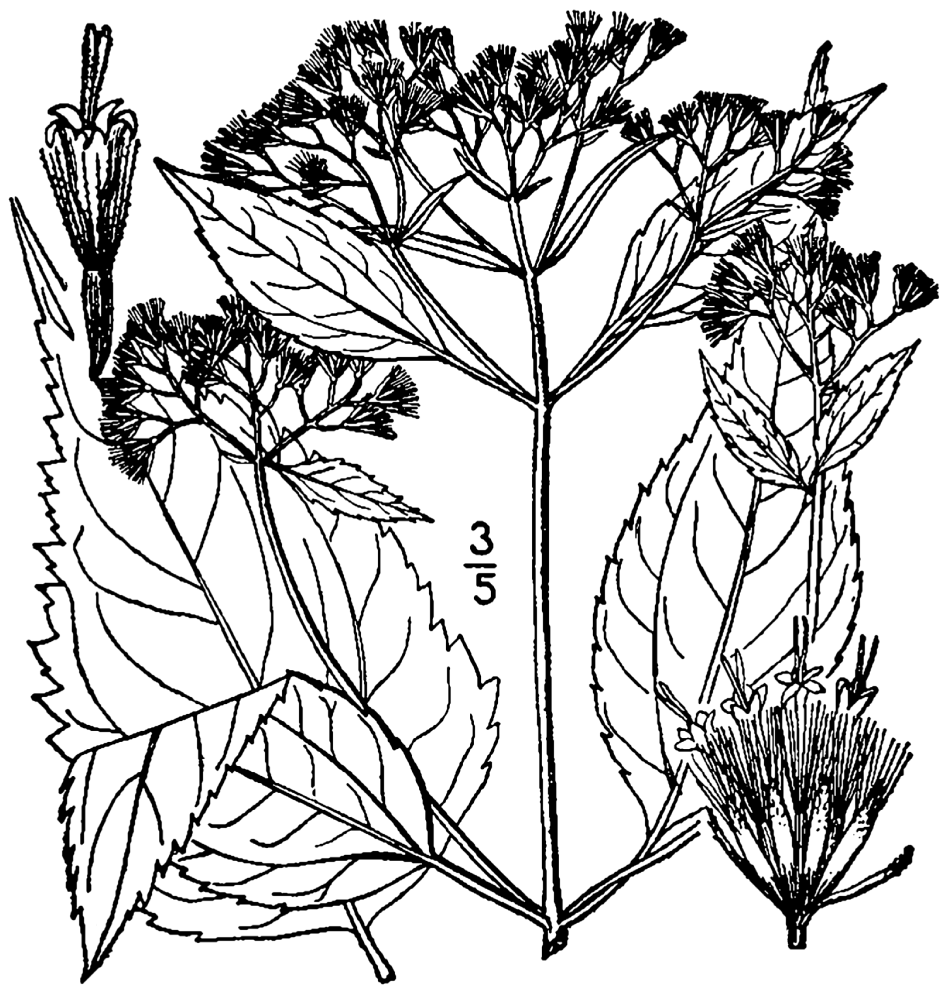 White Snakeroot. Drawing.